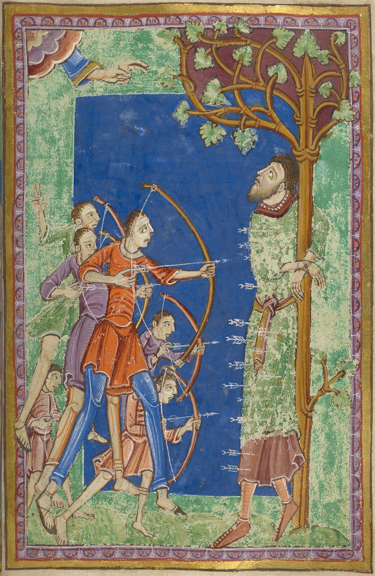 Illustration of the execution of Edmund, King of East Anglia (died 869) depicted on folio 14r of Pierpont Morgan Library MS M.736. This image is a cropped version of File:Execution of Edmund (Pierpont Morgan Library MS M.736, folio 14r).jpg.